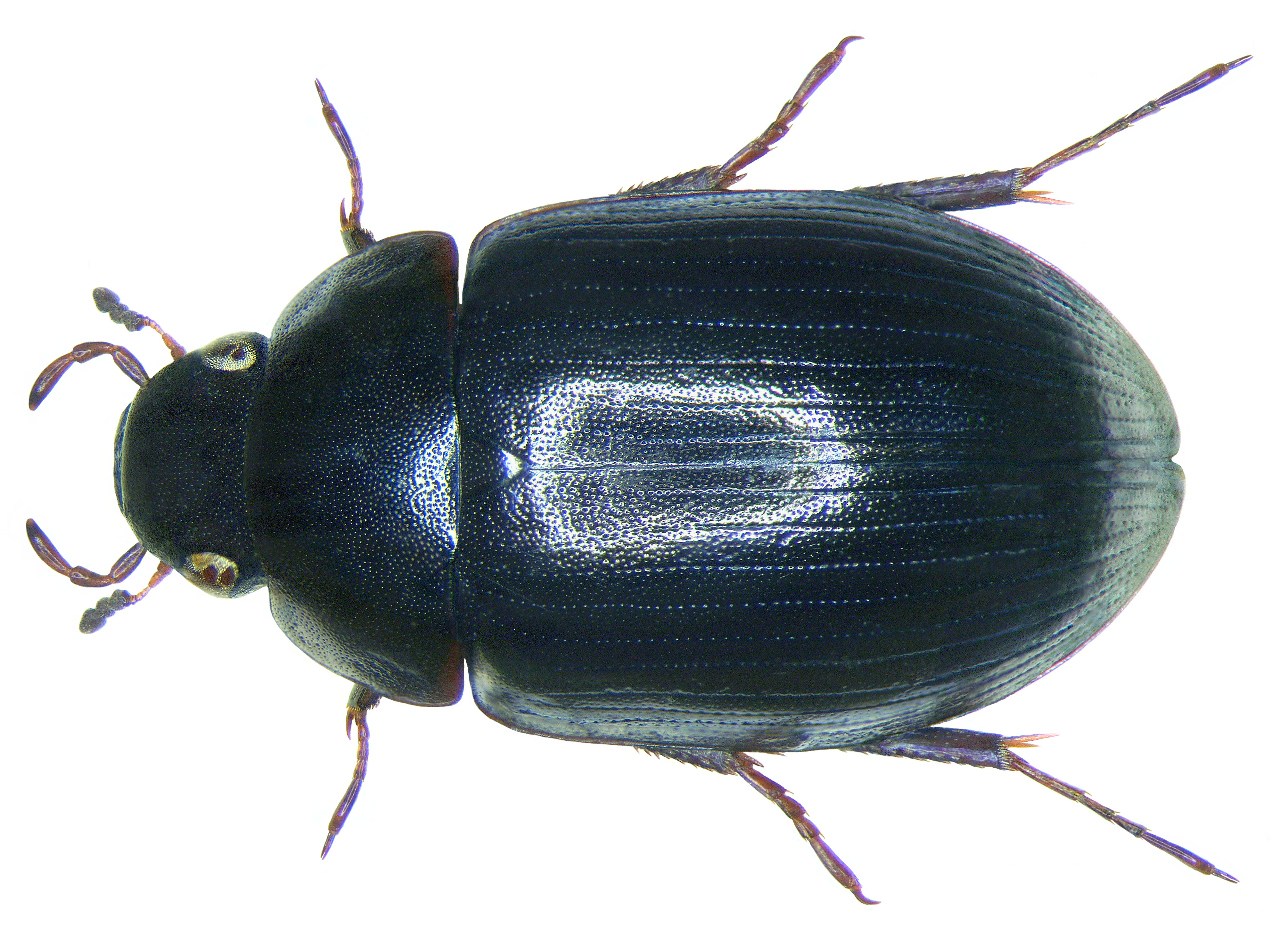 Hydrobius fuscipes, a species of beetle in the family Hydrophilidae Familie: Hydrophilidae Grösse: 6-9 mm Verbreitung: Europa Ökologie: Wasserbewohner in unterschiedlichen Gewässern Fundort: Germania, Oberfranken, Kulmbach leg.det. U.Schmidt, 1975 Foto: U.Schmidt, 2008